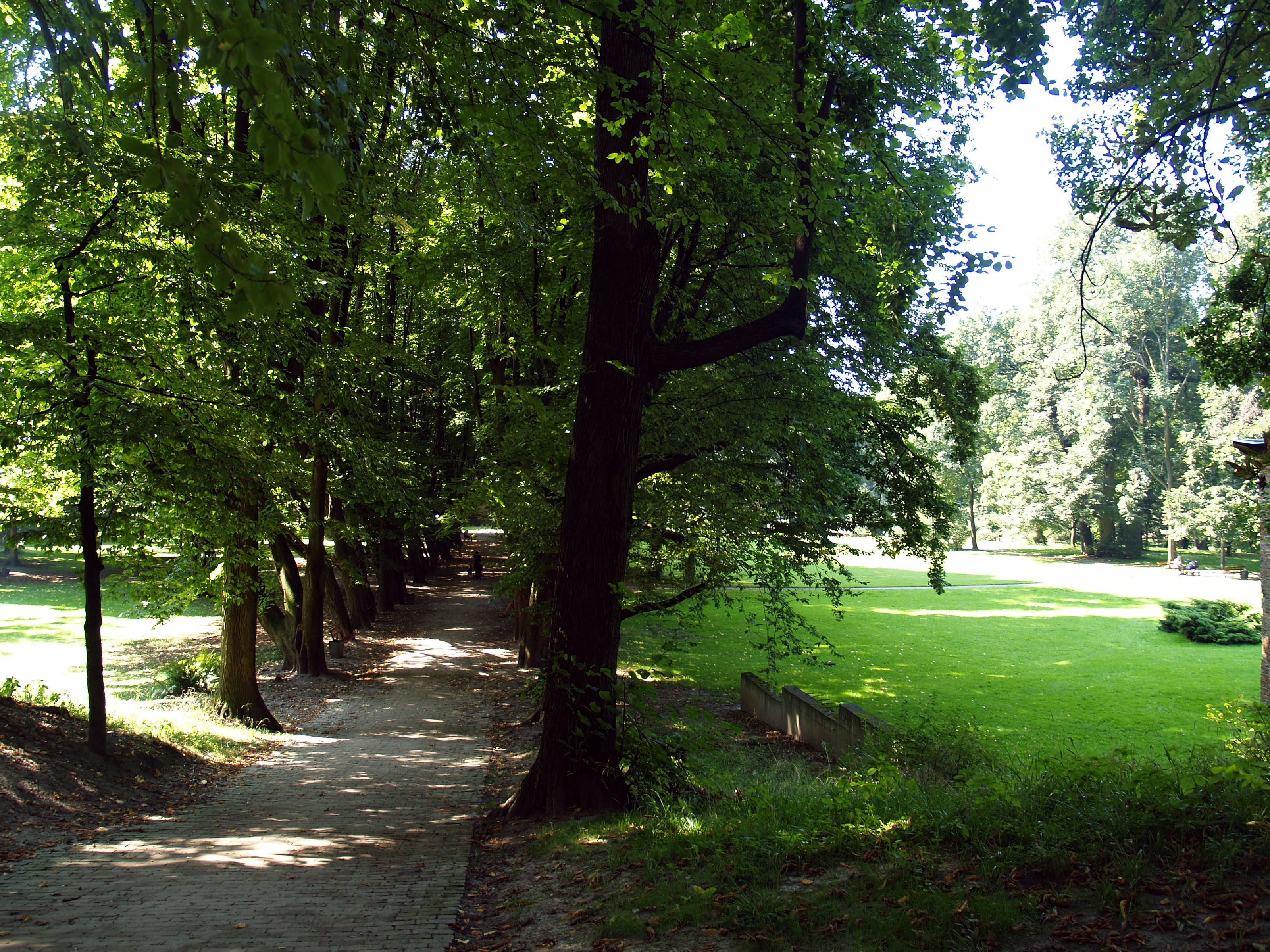 The Park